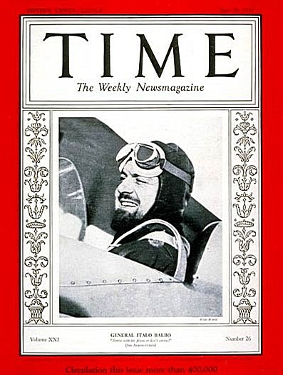 TIME magazine cover for 26 June 1933. The photo shows Italo Balbo.